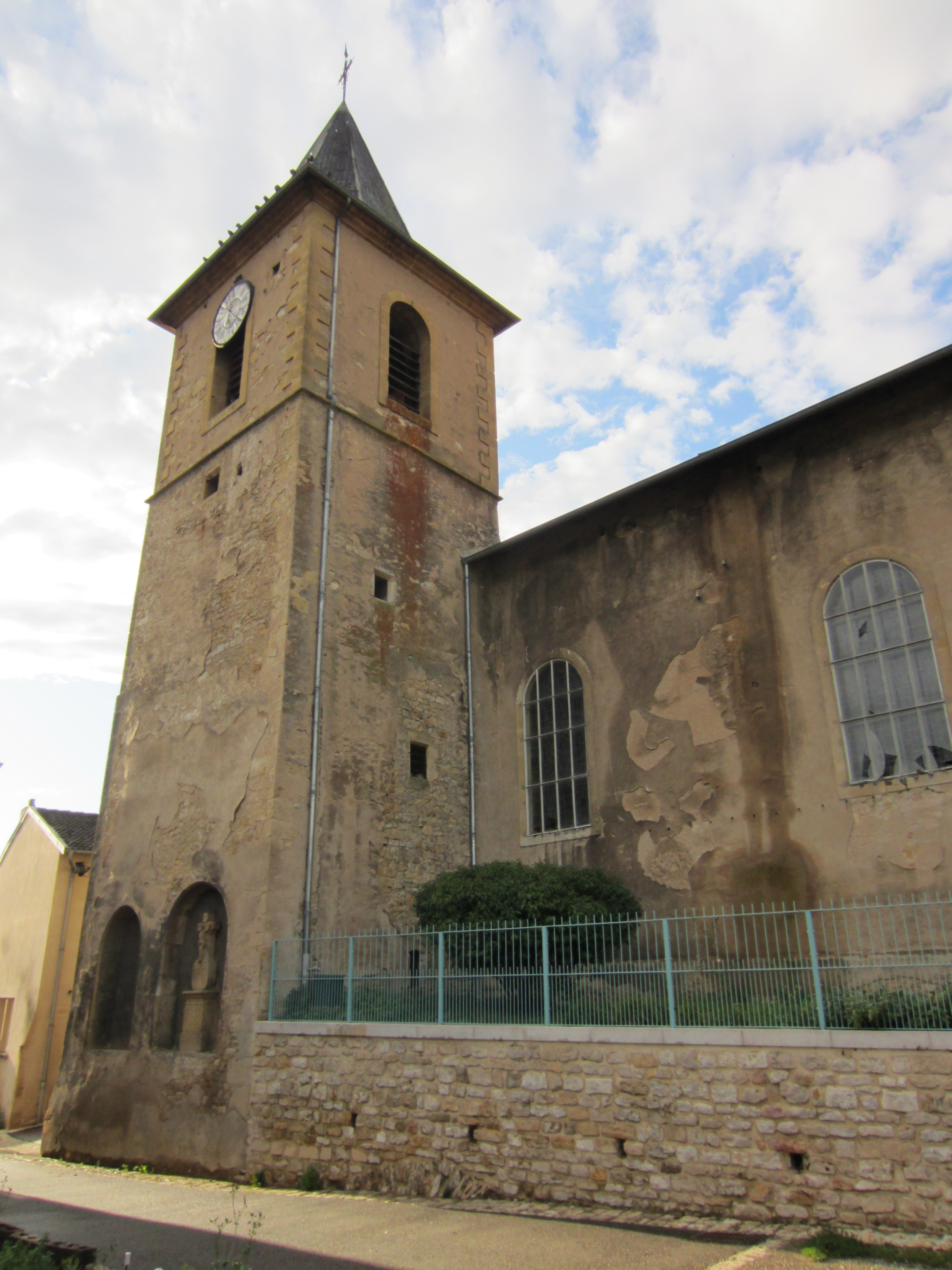 Description eglise Arnaville Date12 September 2011Sourcemon appareil photoAuthorAimelaimePermission(Reusing this file) eglise Arnaville